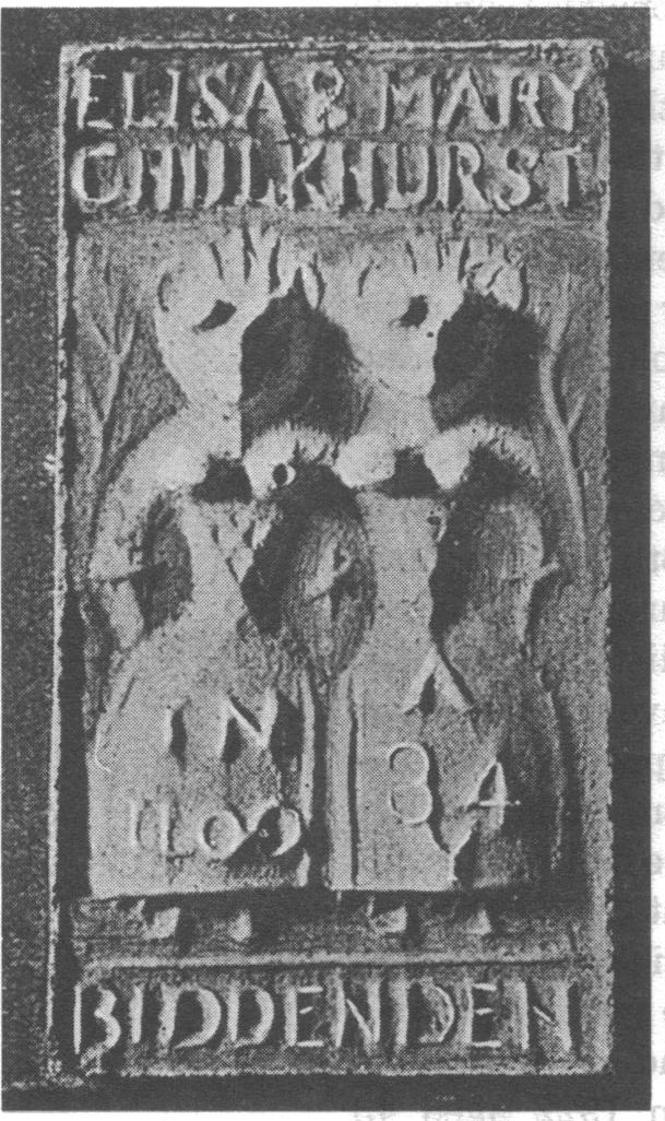 Plaster impression of a Biddenden cake mould dating from circa 1750, photographed by George Clinch, 1900